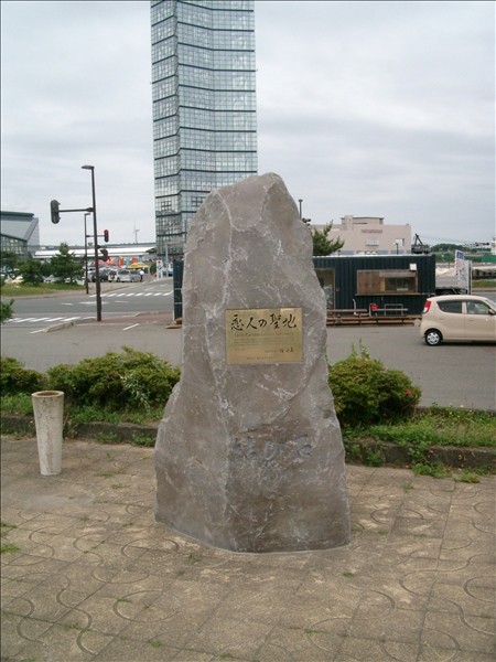 Musubi-Ishi, the Monument for Lovers, Akita Bay, Japan